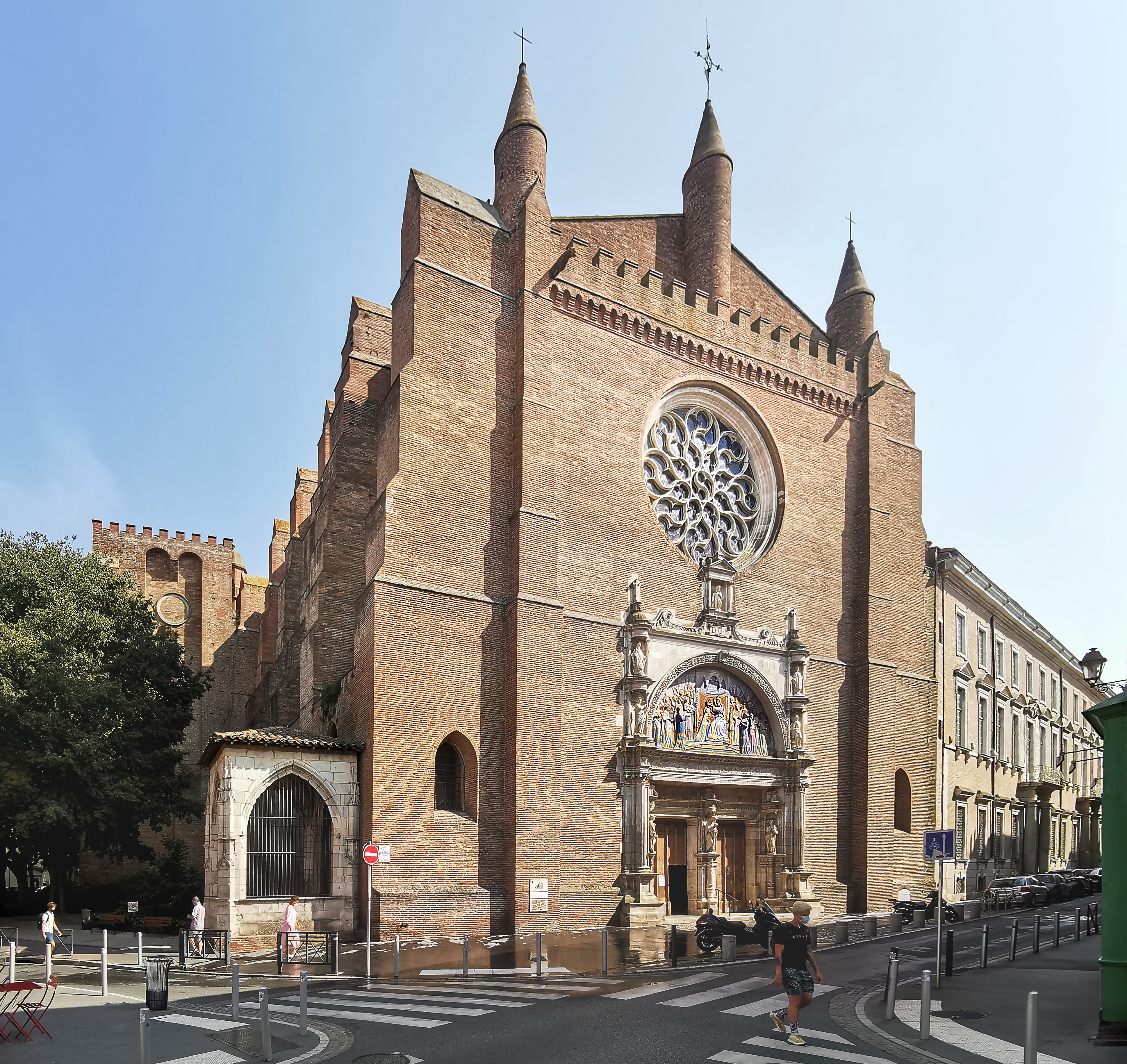 Notre-Dame de la Dalbade in Toulouse. Facade.